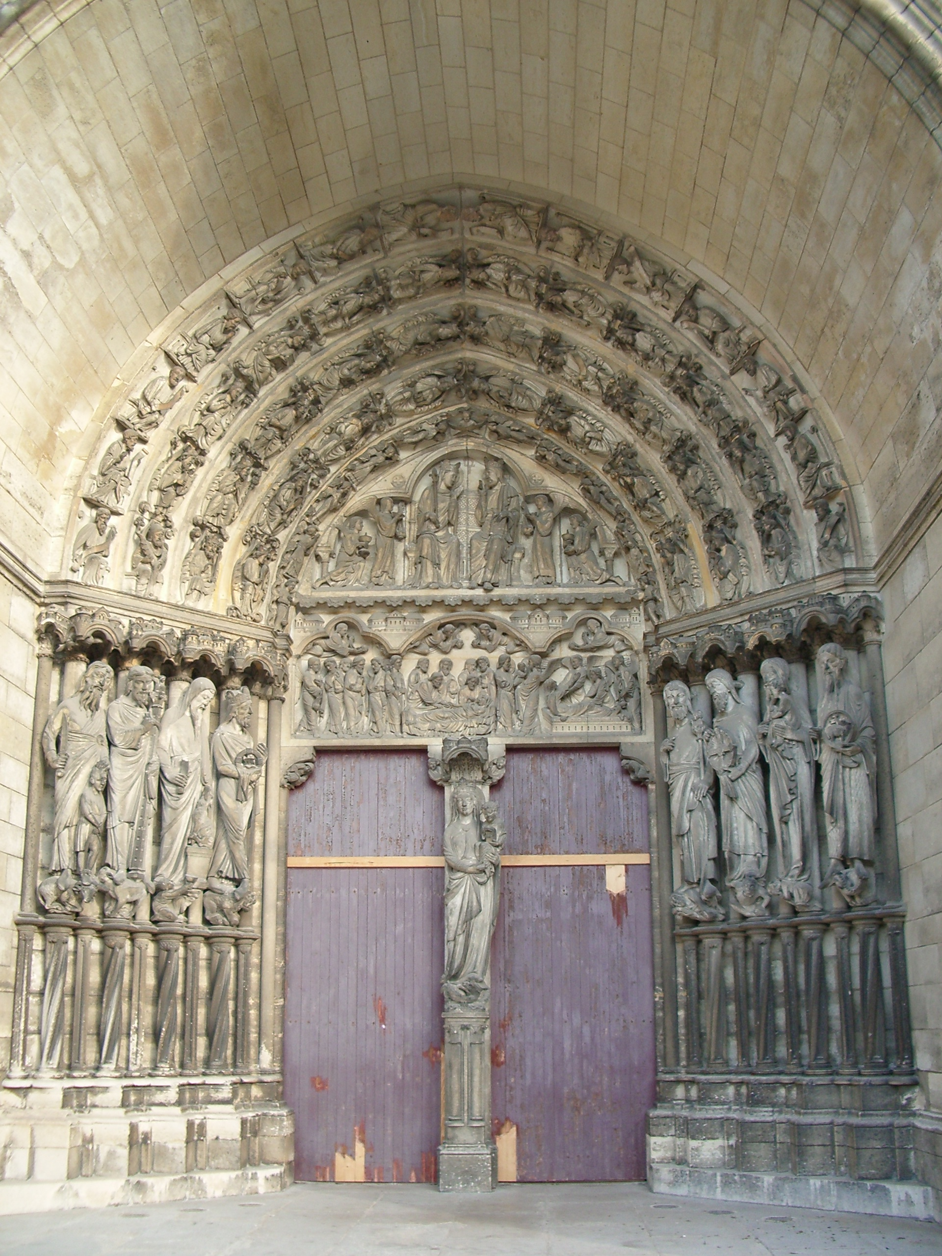 Main gate of Laon's cathedral, Aisne, France